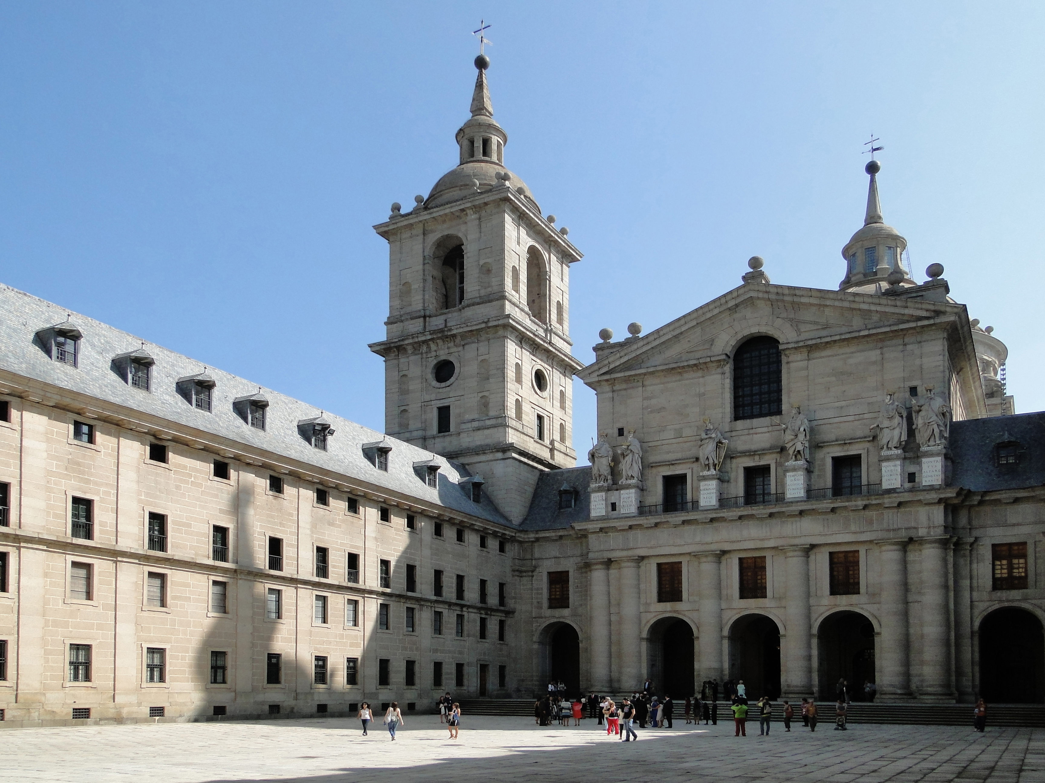 Courtyard of the Kings and the Basilica of the Monastery of El Escorial, San Lorenzo of El Escorial, Spain